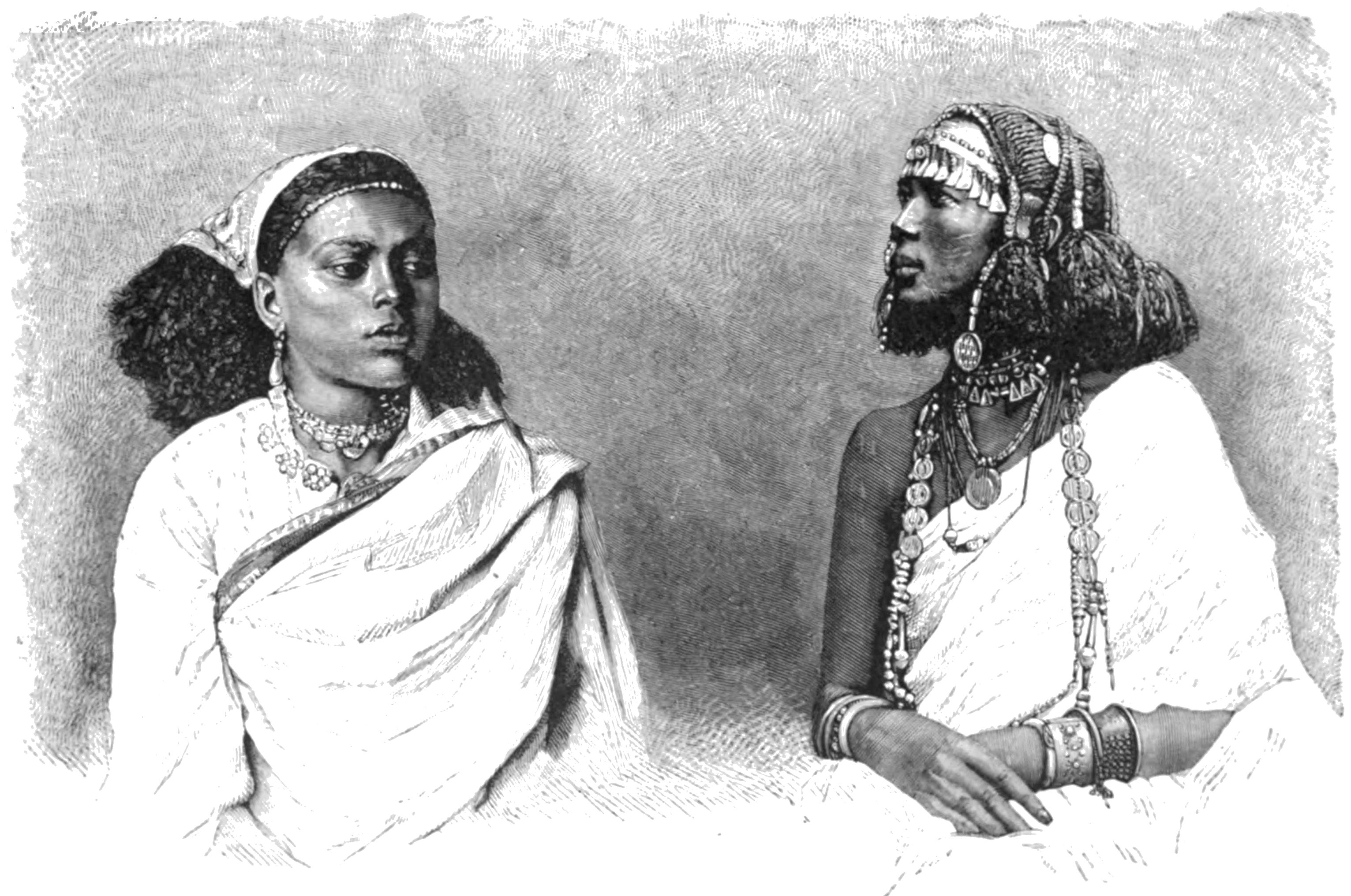 Shaikieh Arab and Ethiopian female slaves at Kharthum